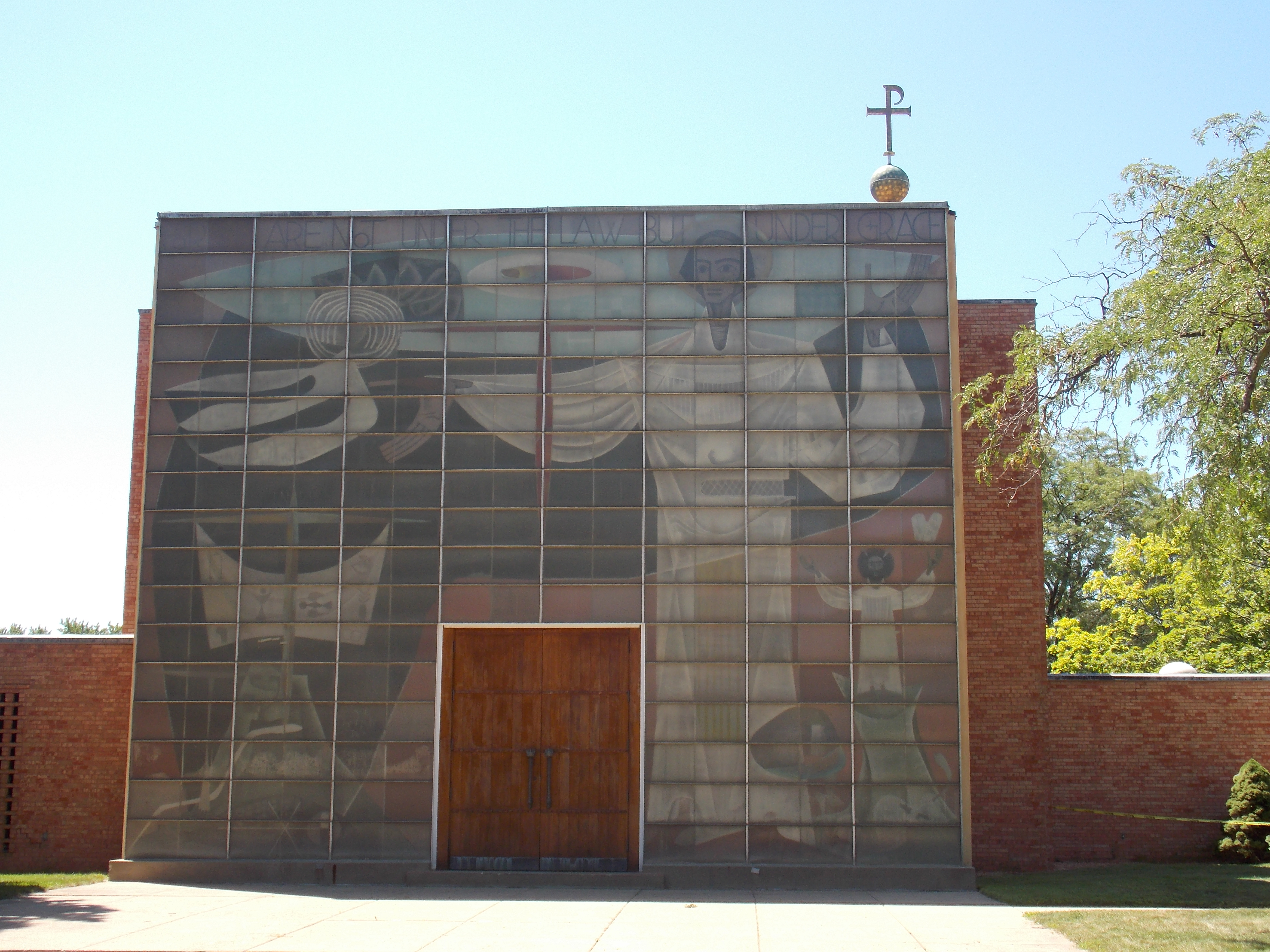 Saint Paul's Episcopal Church in Peoria, Illinois was the cathedral church of the former Diocese of Quincy.